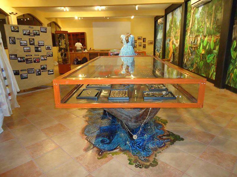 Interior of the Community Museum of Our Lady of Cupilco by night.